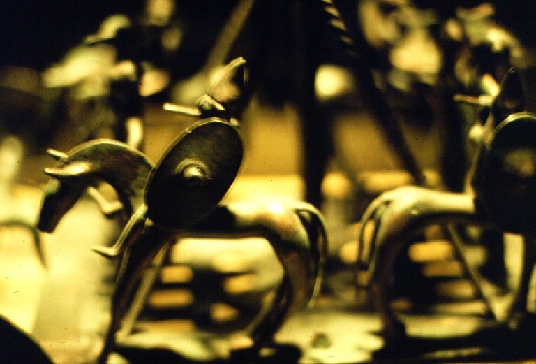 Der Strettweger Opferwagen ist ein um ca. 600 v. Chr. gefertigter bronzener Kultwagen, der 1851 beim Planieren eines Fürstengrabs der Hallstattkultur in Strettweg bei Judenburg in Österreich gefunden wurde. Neben dem Wagen wurden weitere Grabbeigaben, wie Schmuck und Amphoren aus Bronze, eiserne Waffen und Zaumzeug gefunden. Der Wagen besteht aus einer viereckigen, durchbrochenen Grundplatte mit vier Speichenrädern. Zentral auf dem Wagen steht eine etwa 32 cm hohe weibliche Gestalt, die mit erhobenen Händen einen schalenförmigen Gegenstand trägt. Neben ihr wird die Schale durch zwei scherenförmige Stützen gehalten. Auf der Schale ruht ein nahezu halbkugeliger Kessel, der von einem durchbrochenen Rand mit schneckenförmigen Verzierung abgeschlossen wird. Neben der Kesselträgerin stehen zahlreiche weitere Figuren in Form von stehenden und berittenen Menschen sowie pferde- und hirschähnlichen Tieren. Die dargestellte Szene wird als Opferszene interpretiert. Der Wagen diente vermutlich als Kultobjekt, zur Aufnahme von Trankopfern. Der Strettweger Opferwagen wurde 2009 restauriert und steht im Original im Universalmuseum Joanneum in Graz. Eine Kopie ist im Museum Judenburg ausgestellt. Im Universalmuseum Joanneum in Graz, Archäologiemuseum Schloss Eggenberg fotografiert.